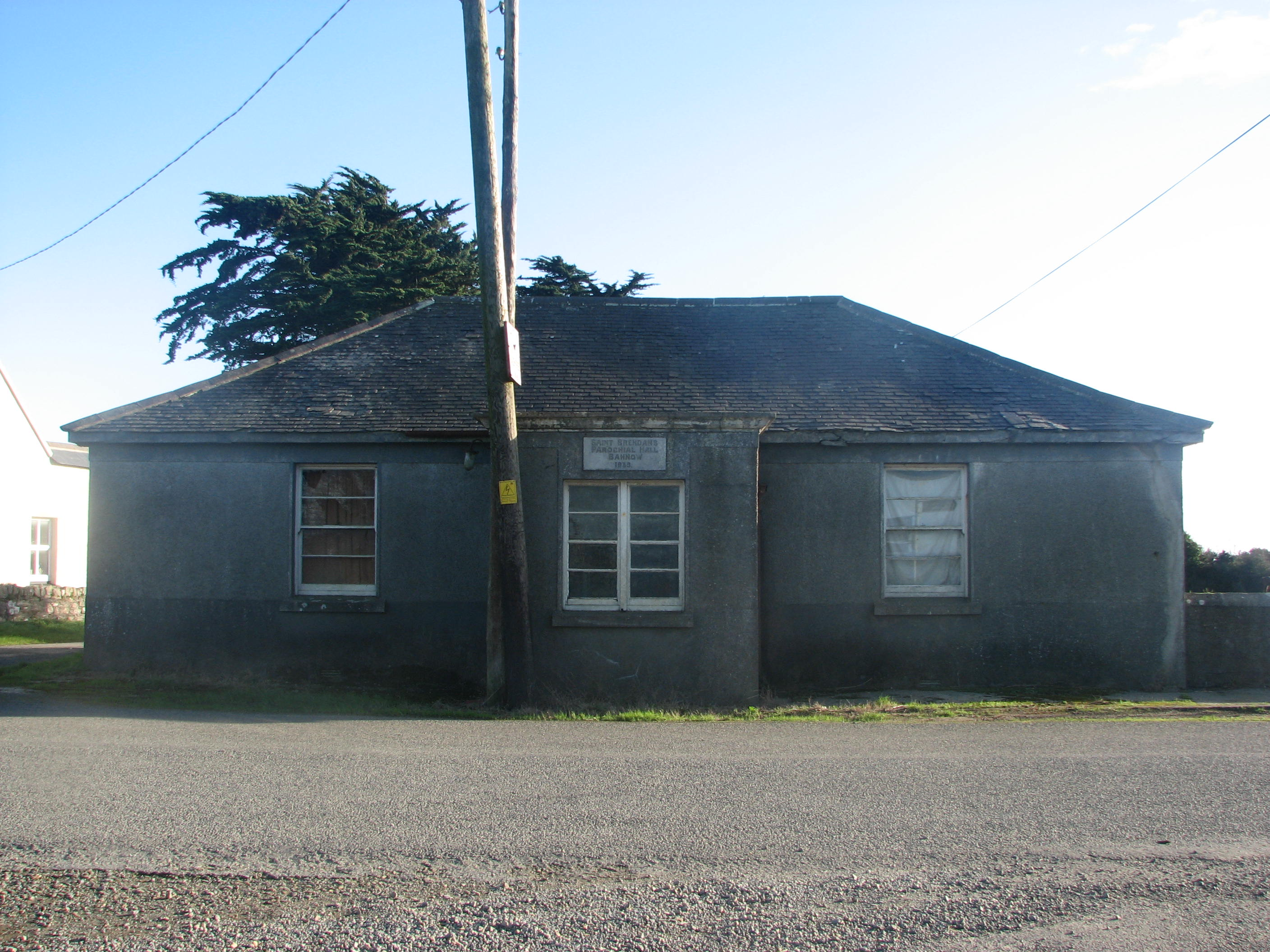 St. Brendans Parochial Hall, Bannow